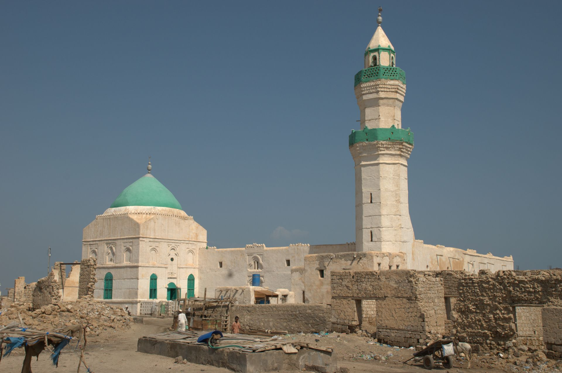 Suakin, Sudan, mosque on mainland el-Geyf